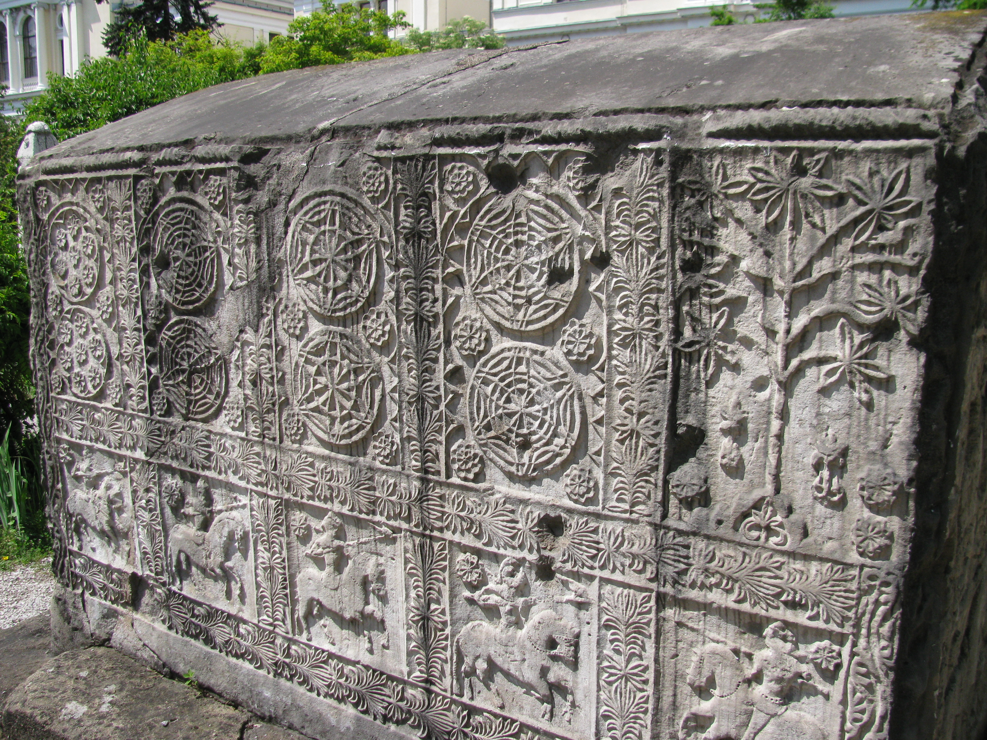 Stećak showing great detail and damage caused by artillery used in Siege of Sarajevo (Stećak located at National Museum of Bosnia and Herzegovina). Shown here in June 2010